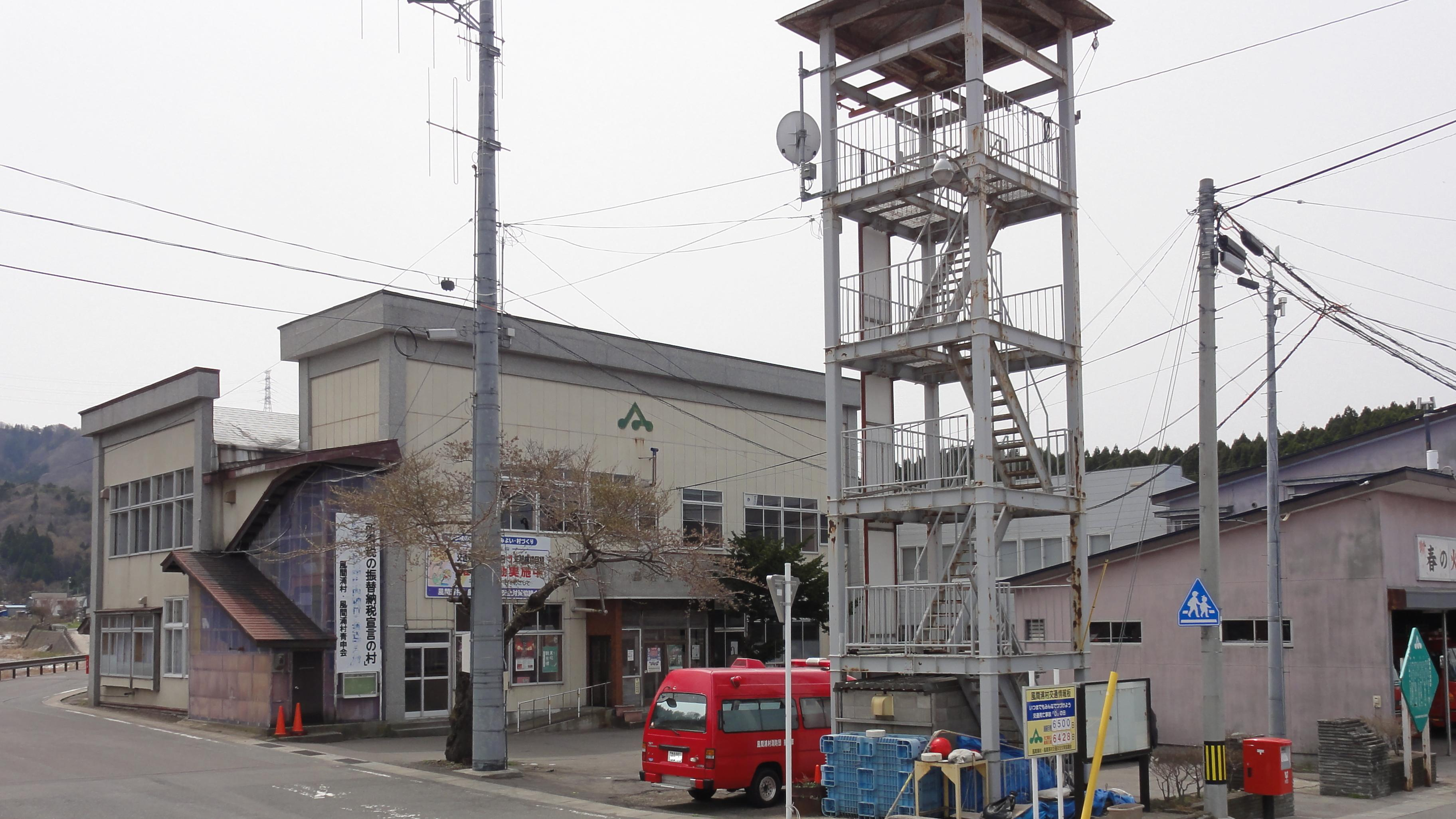 Kazamaura village office,Aomori prefecture, Japan